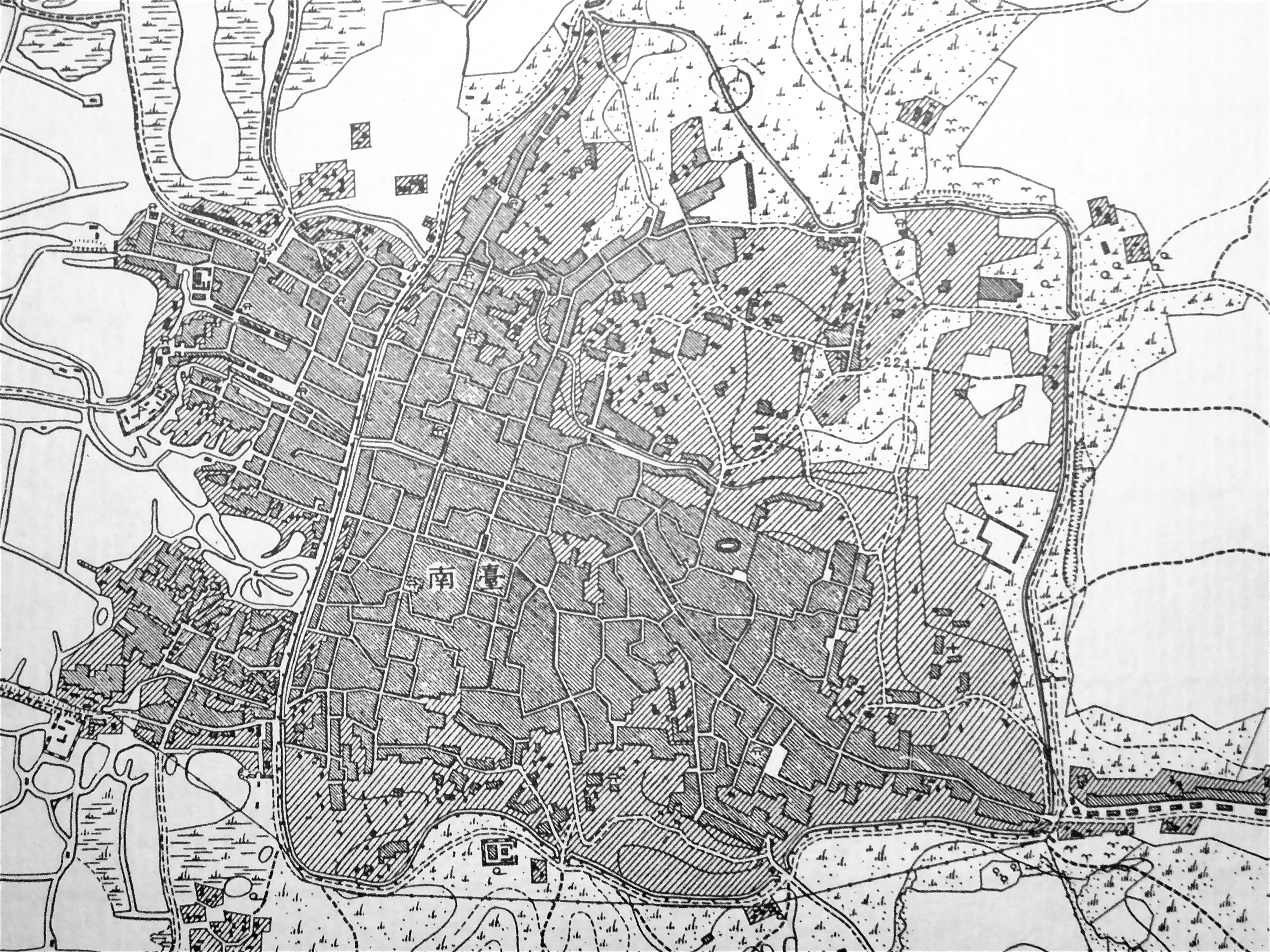 Map of Tainan, Formosa(Taiwan)